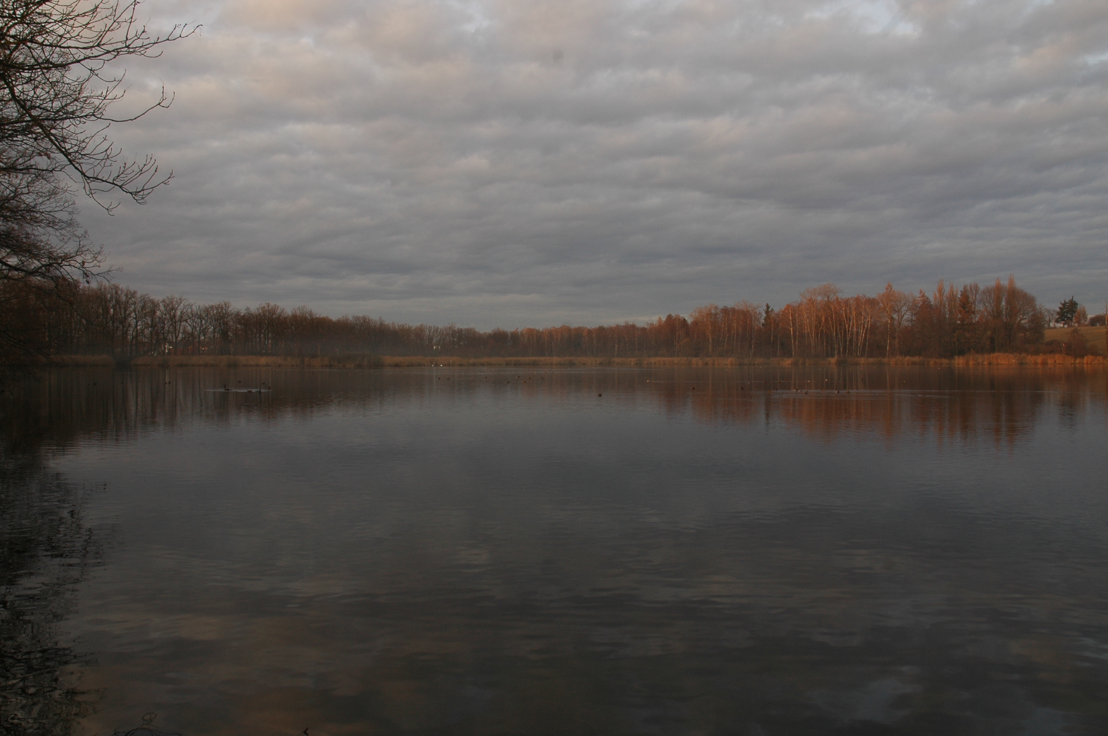 National monument Nový rybník u Soběslavi in Tábor District, Czech Republic